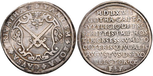 GERMANY, Sachsen-Albertinische Linie (Kurfürstentum). August. 1553-1586. AR Taler (40mm, 28.62 g, 2h). Commemorating the Capture of Gotha. Dresden mint. Dated 1567 in Roman numerals. Coat-of-arms / Date and legend in nine lines. Davenport 9800. VF, toned.